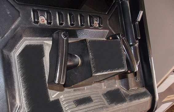 Star Wars - 1983 arcade game Yoke (artworks removed)